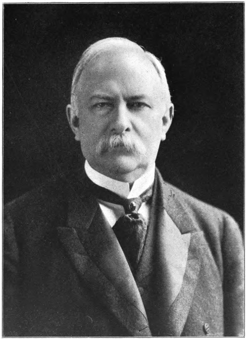 Joseph B. Foraker Senator from Ohio in about 1902.